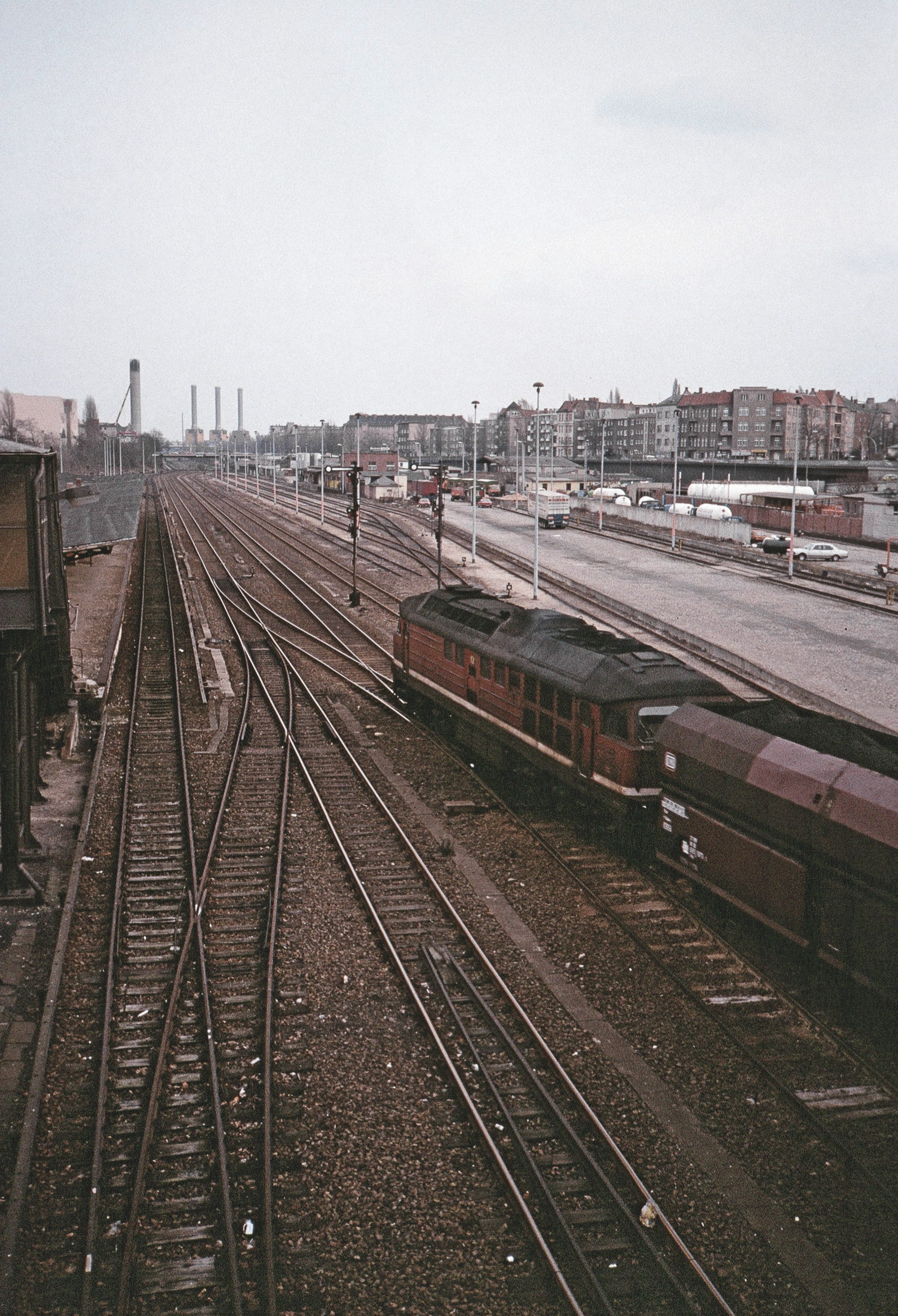 Berlin Halensee train station.